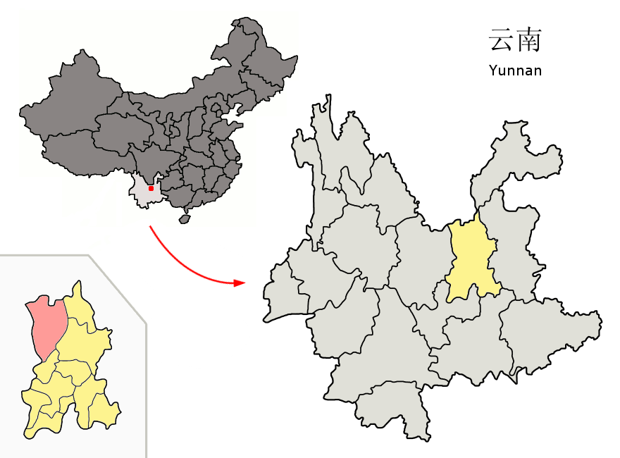 Location of Luquan County (pink) and Kunming prefecture (yellow) within Yunnan province of China Map drawn in september 2007 using various sources, mainly : Yunnan province administrative regions GIS data: 1:1M, County level, 1990 Yunnan Counties map from